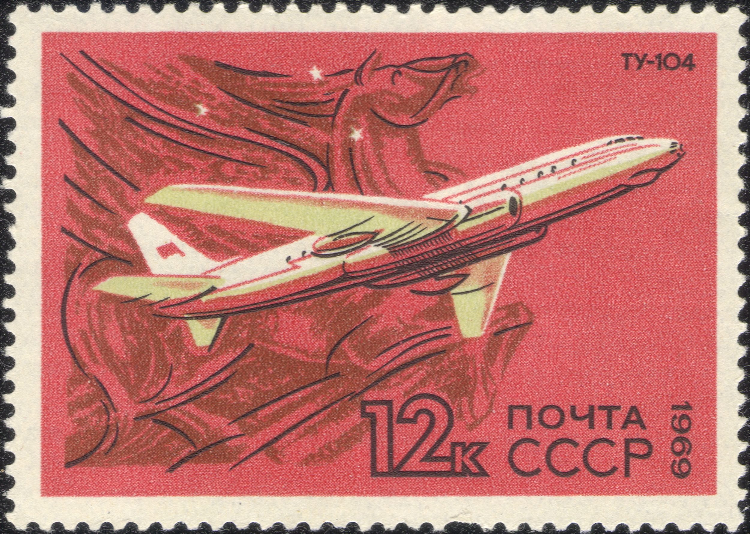 USSR stampː Airplane Tupolev Tu-104, 1955. Pegasus. Seriesː Develoment of Soviet Civil Aviation